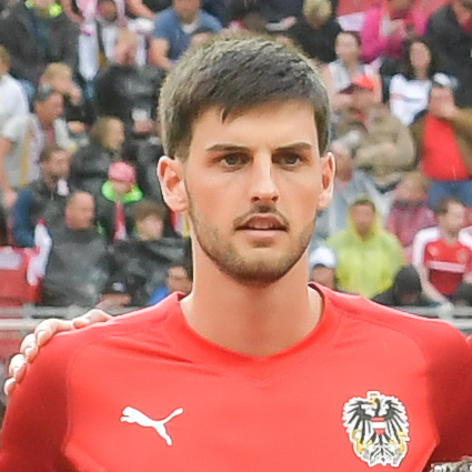 2/6/18, Klagenfurt, Austria, sports, football, International friendly - Austria vs Germany. Image shows Florian Grillitsch (AUT).